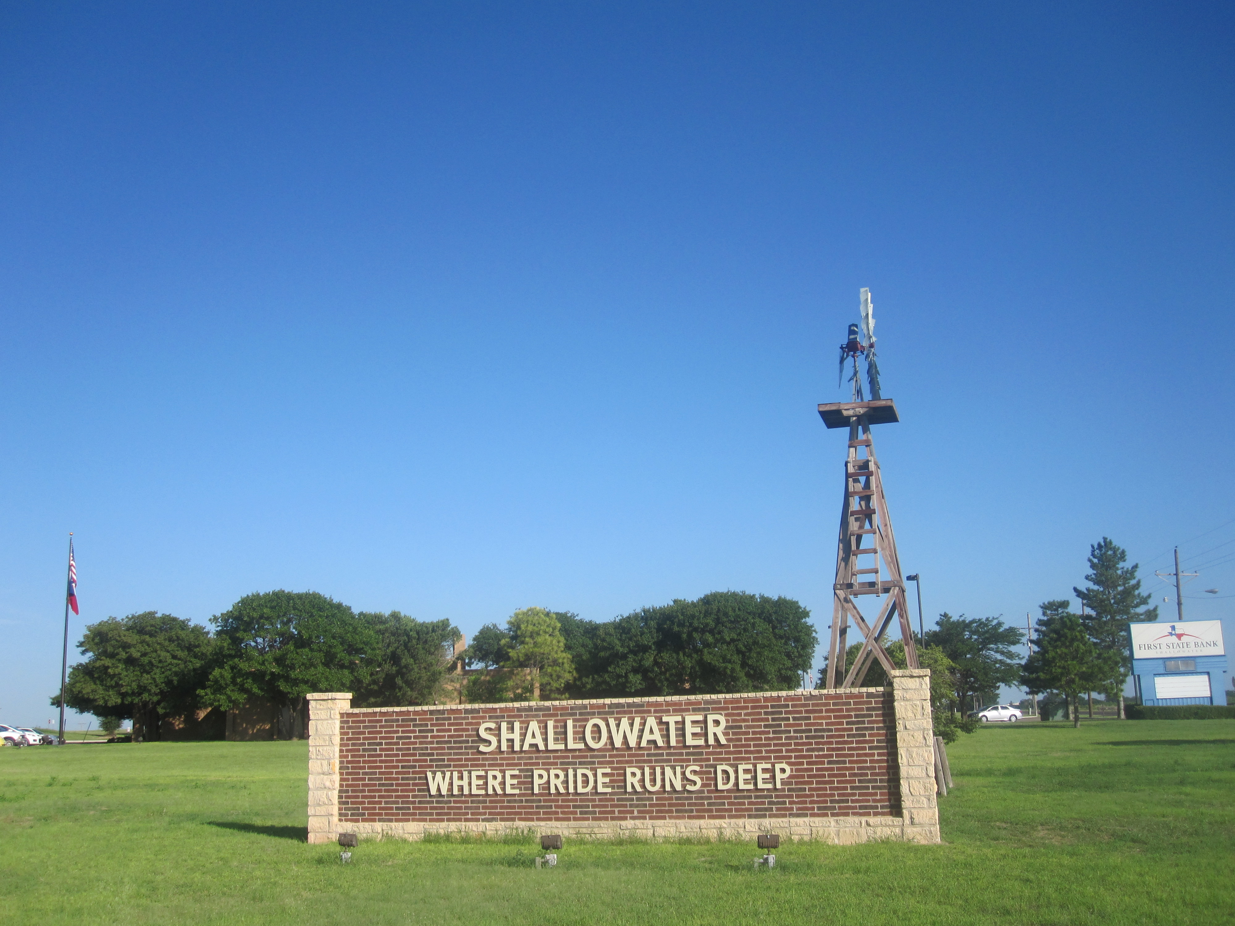 I took photo with Canon camera in Shallowater, TX.